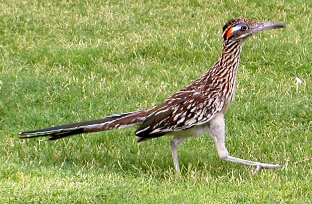 A Greater Roadrunner at the Visitor Center, Death Valley National Park, California.